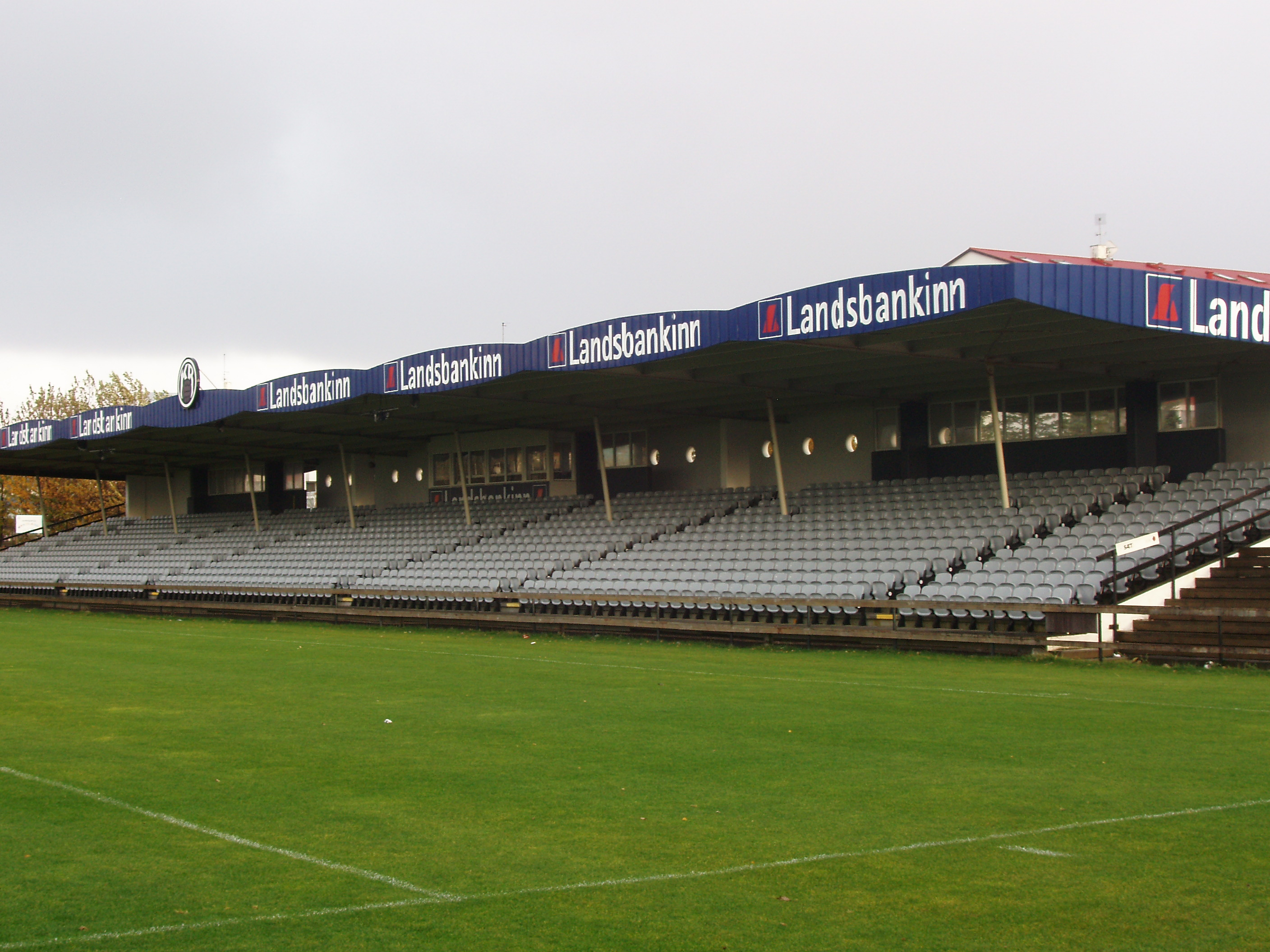 KR-völlur Main Stand in 2011